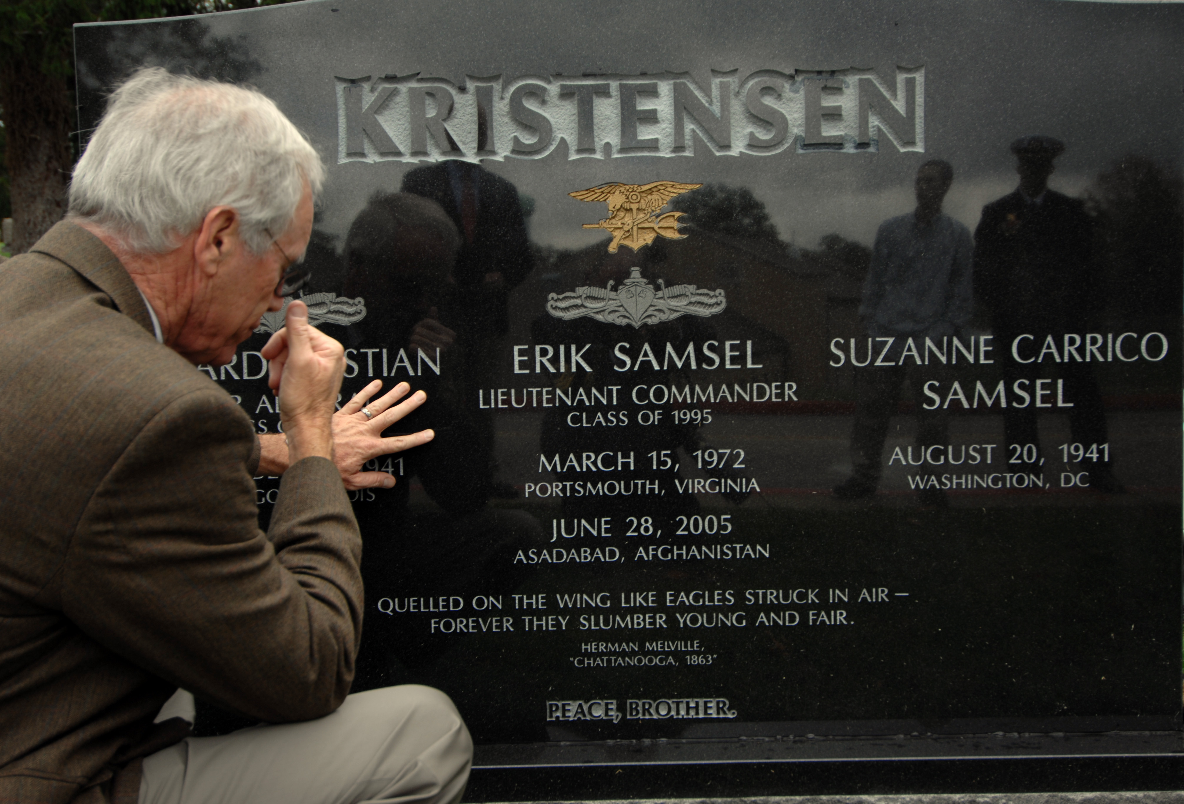 ANNAPOLIS, Md. (Oct. 24, 2007) - Daniel Murphy, father of SEAL Lt. Michael Murphy, kneels beside the grave of SEAL Lt. Cmdr. Erik Samuel Kristensen at the U.S. Naval Academy. The family of Lt. Murphy joined Rear Adm. Edward Kristensen and his wife on the visit to the cemetery. Lt. Cmdr. Kristensen and Lt. Murphy were killed by the same enemy forces in Afghanistan on June 28, 2005. U.S. Navy photo by Chief Mass Communication Specialist James Pinsky (RELEASED)